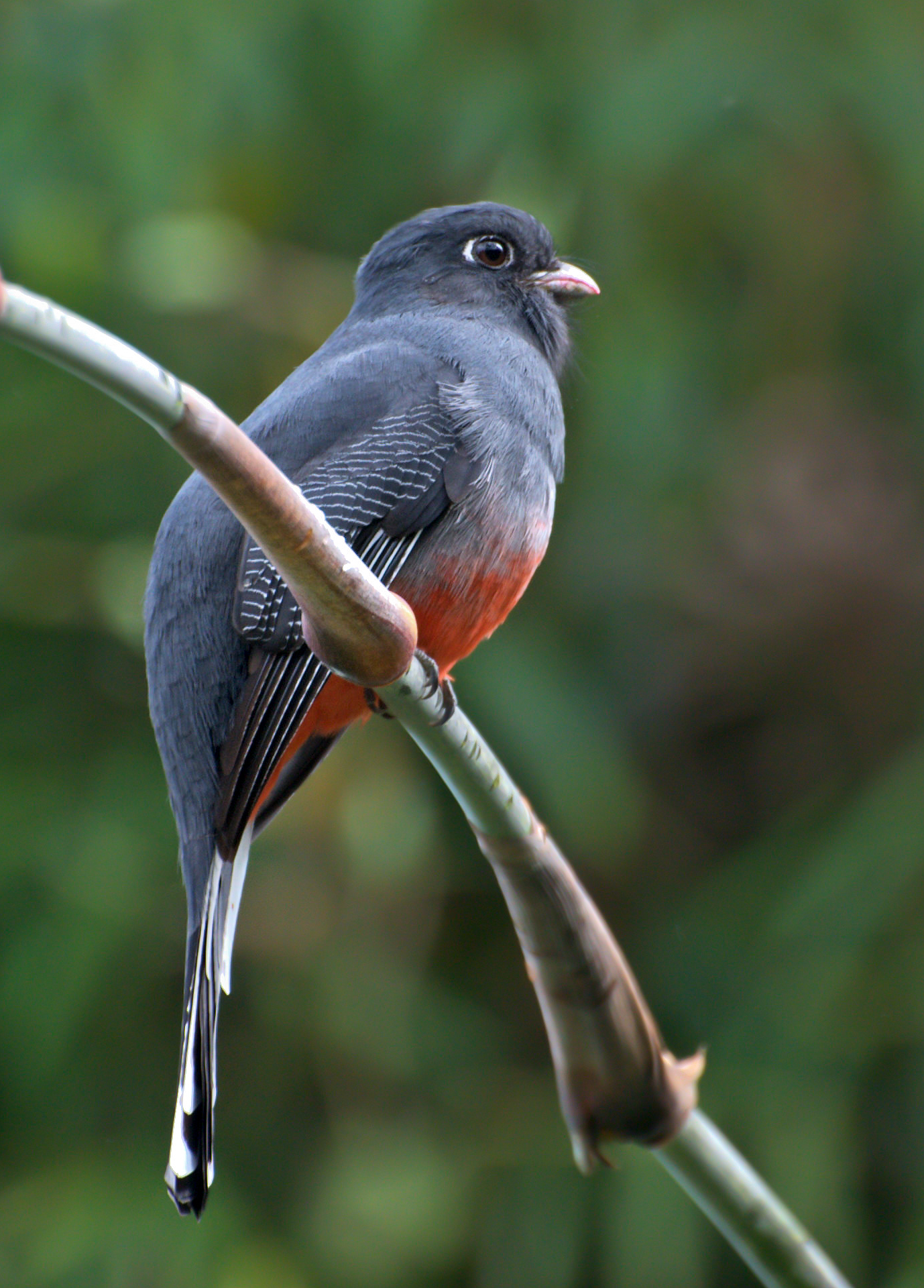 A Surucua Trogon in Parque Nacional do Itatiaia, Rio de Janeiro, Brazil.